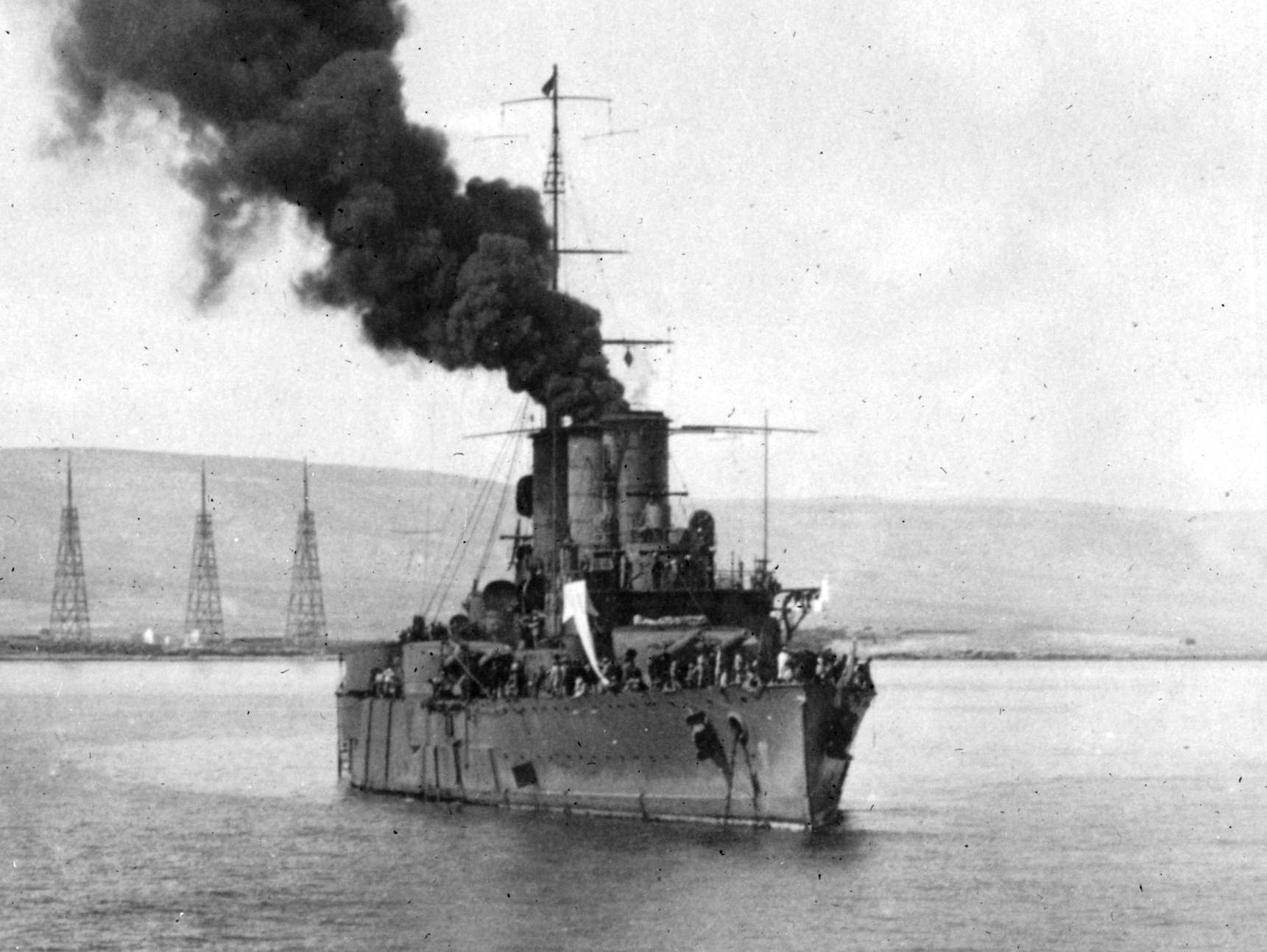 The Italian cruiser Pisa at Derna, Libya.